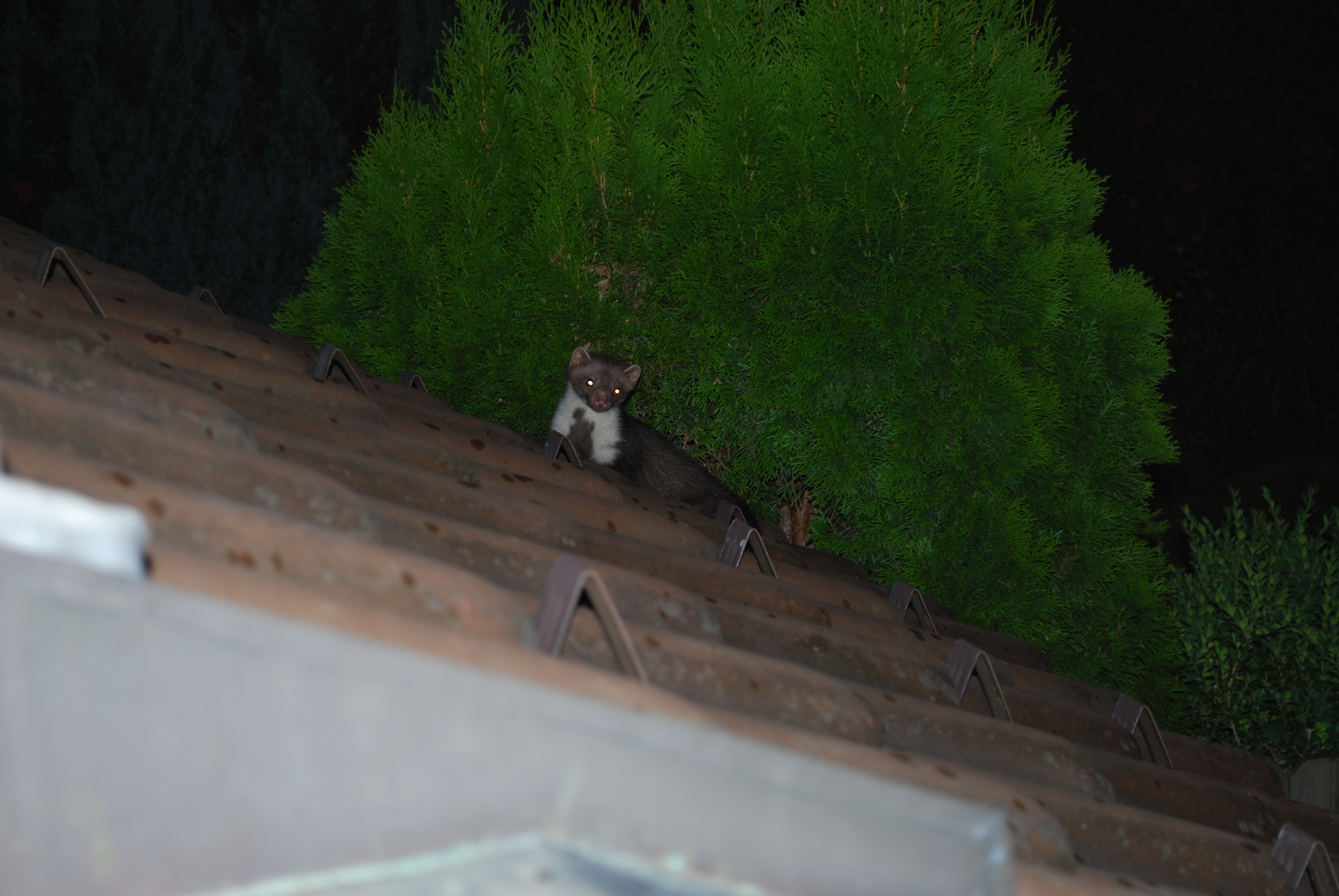 Beech Marten (Martes foina) on the roof of our house.